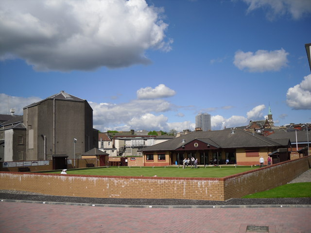 Airdrie Bowling Club The large grey building on the left is the rear of Airdrie Town Hall and the tower block in the distant centre is Milton Court.